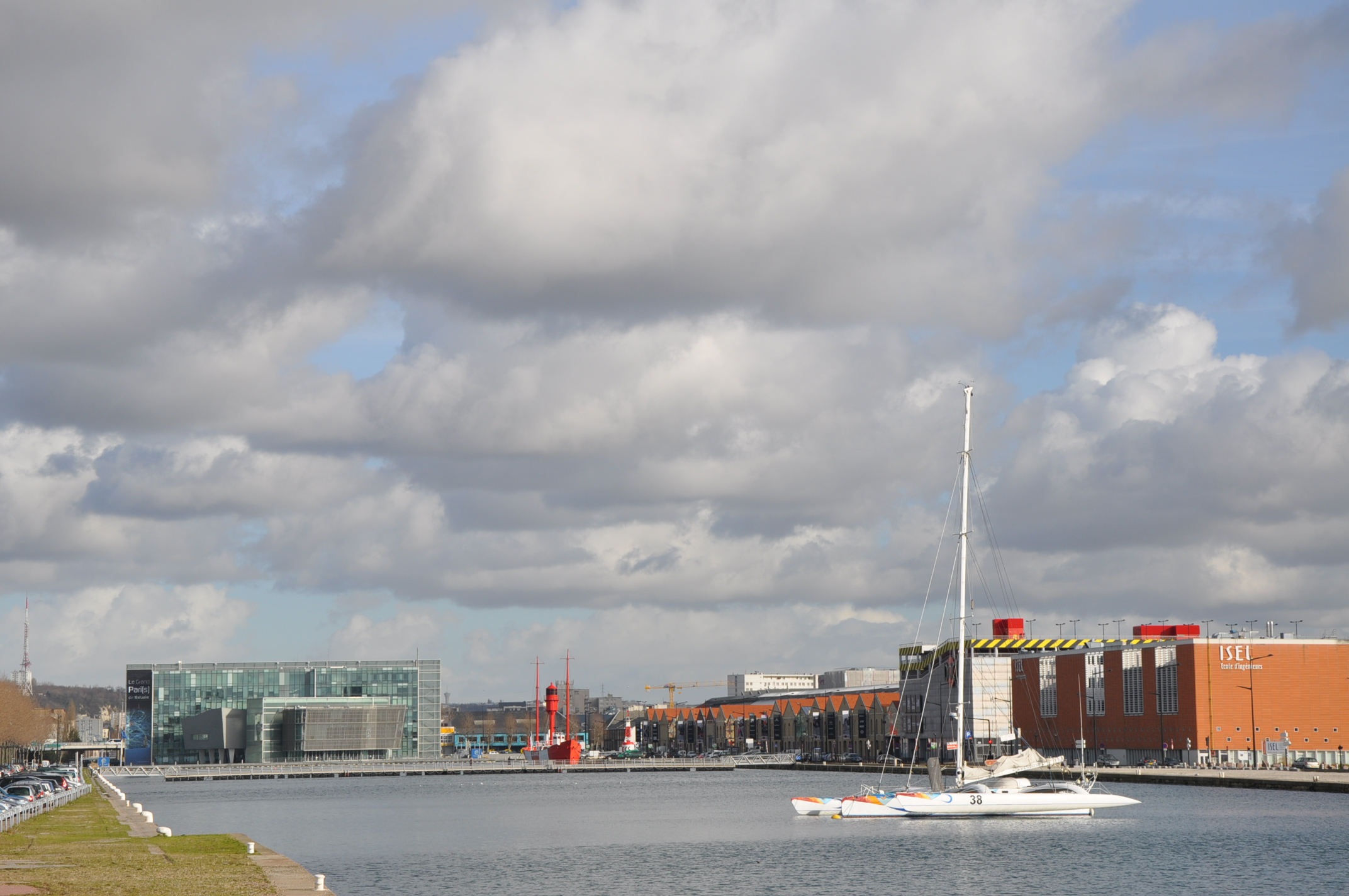 Le Havre (Normandy, France): along the basin, the Institut supérieur d'études logistiques (ISEL, the engineering school of the University of Le Havre); at left in the background, the chamber of commerce of Le Havre. The trimaran is a Multi 50 called Négocéane.